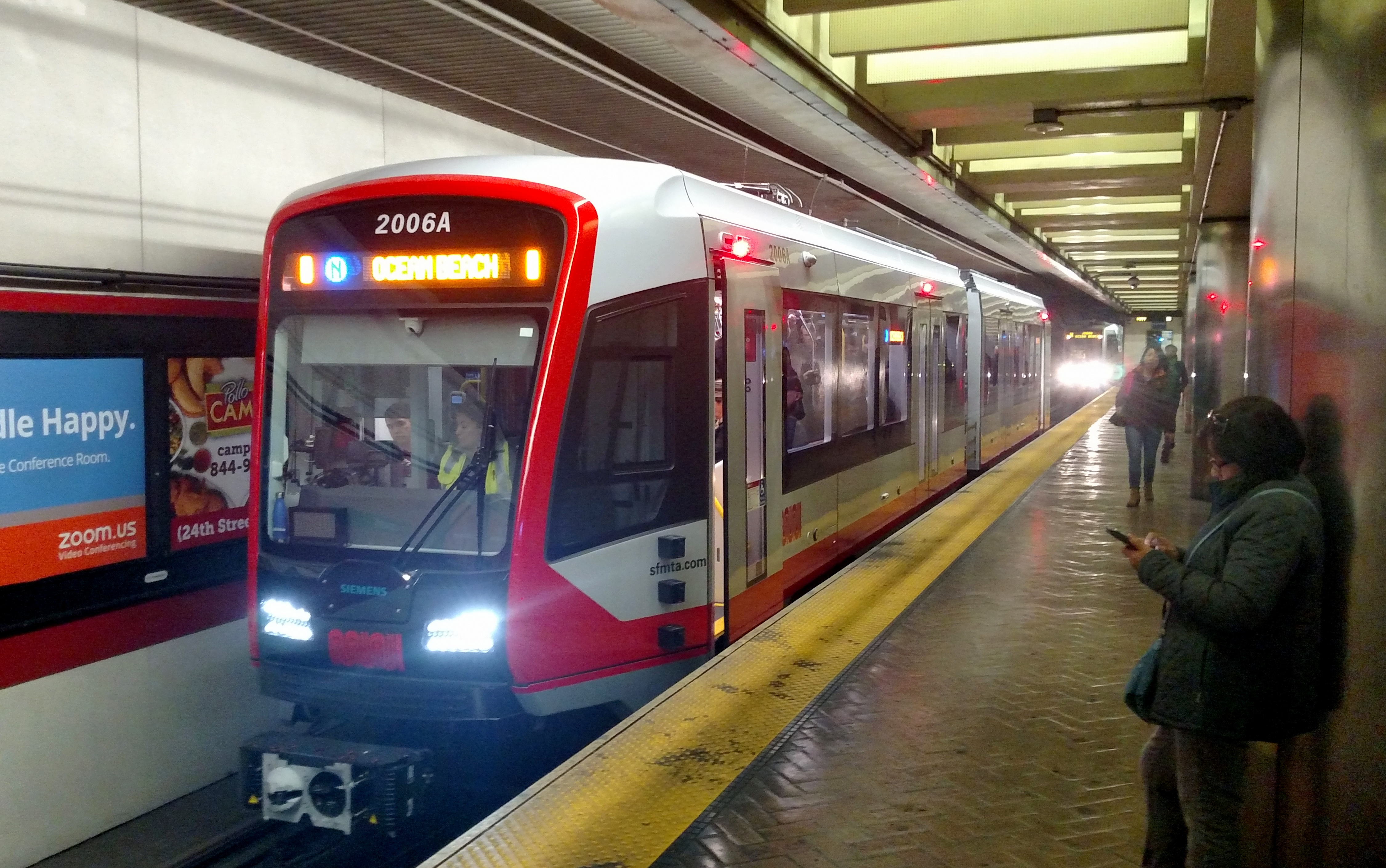 Muni 2006, the first Siemens S200 SF to enter revenue service, at Powell station on its first day of revenue service in November 2017